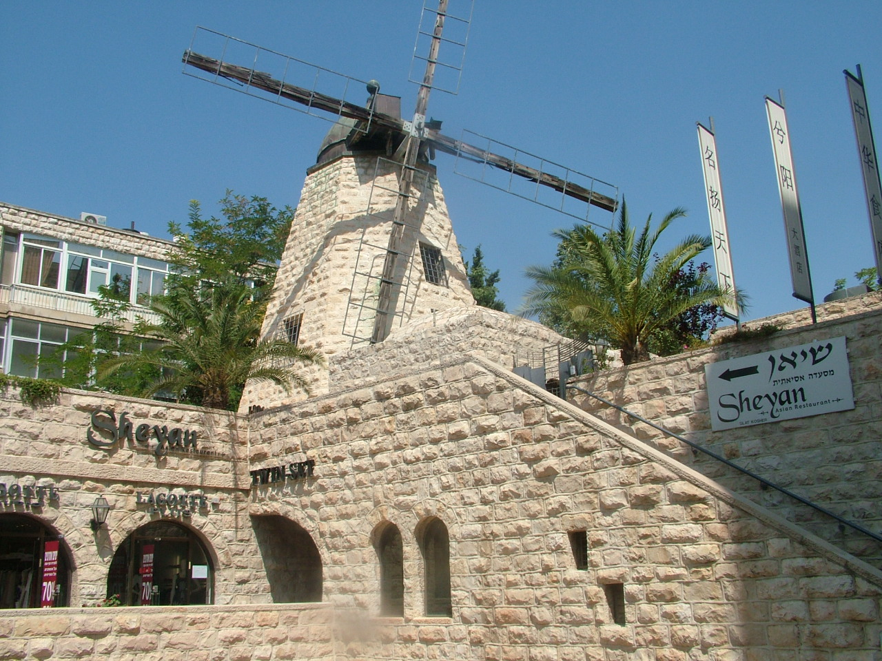 The Mill in Rehavia, Jerusalem, Israel